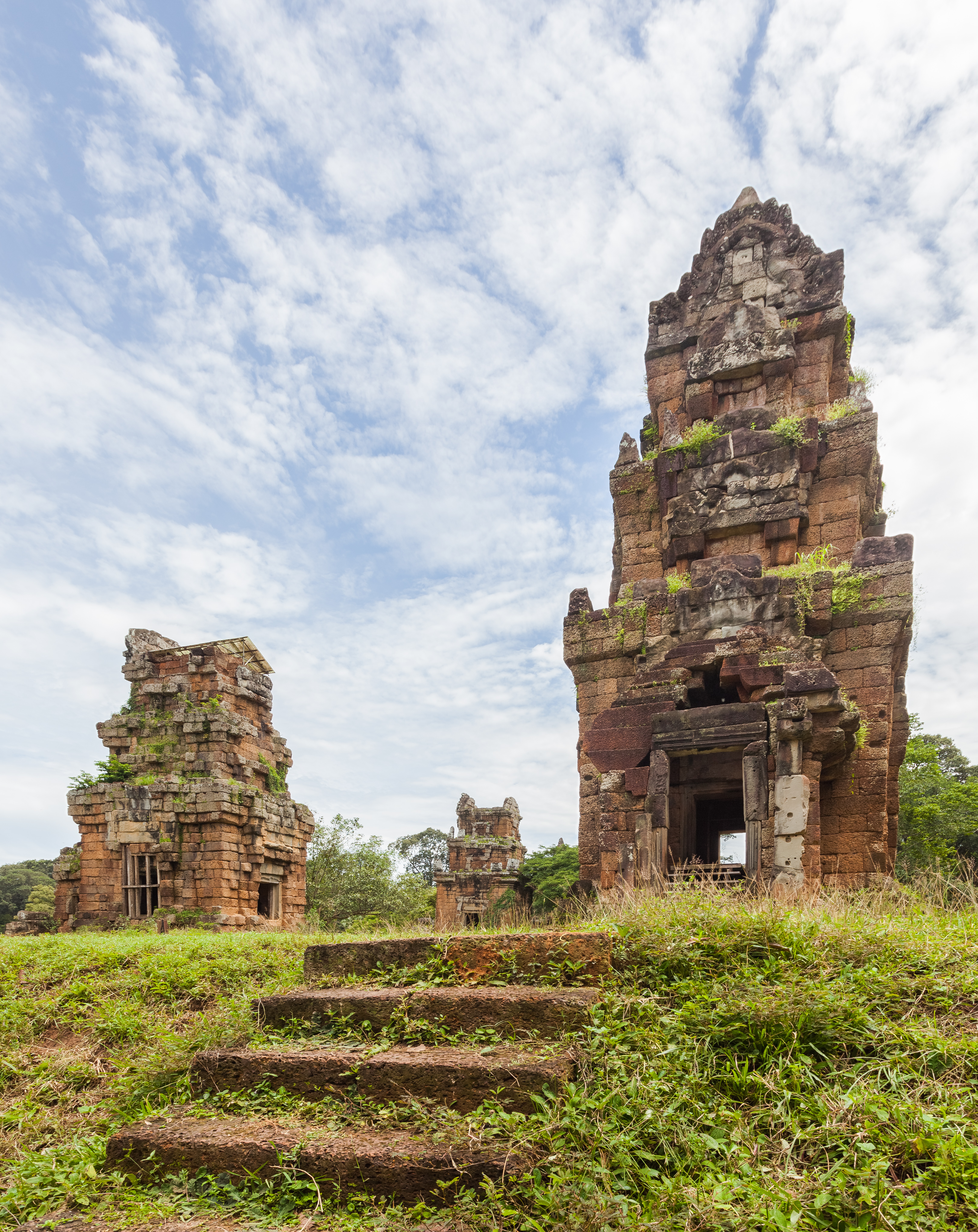 Prasat Suor Prat, Angkor Thom, Cambodia